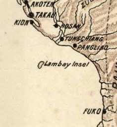 Lambay Insel (Karte 1905)